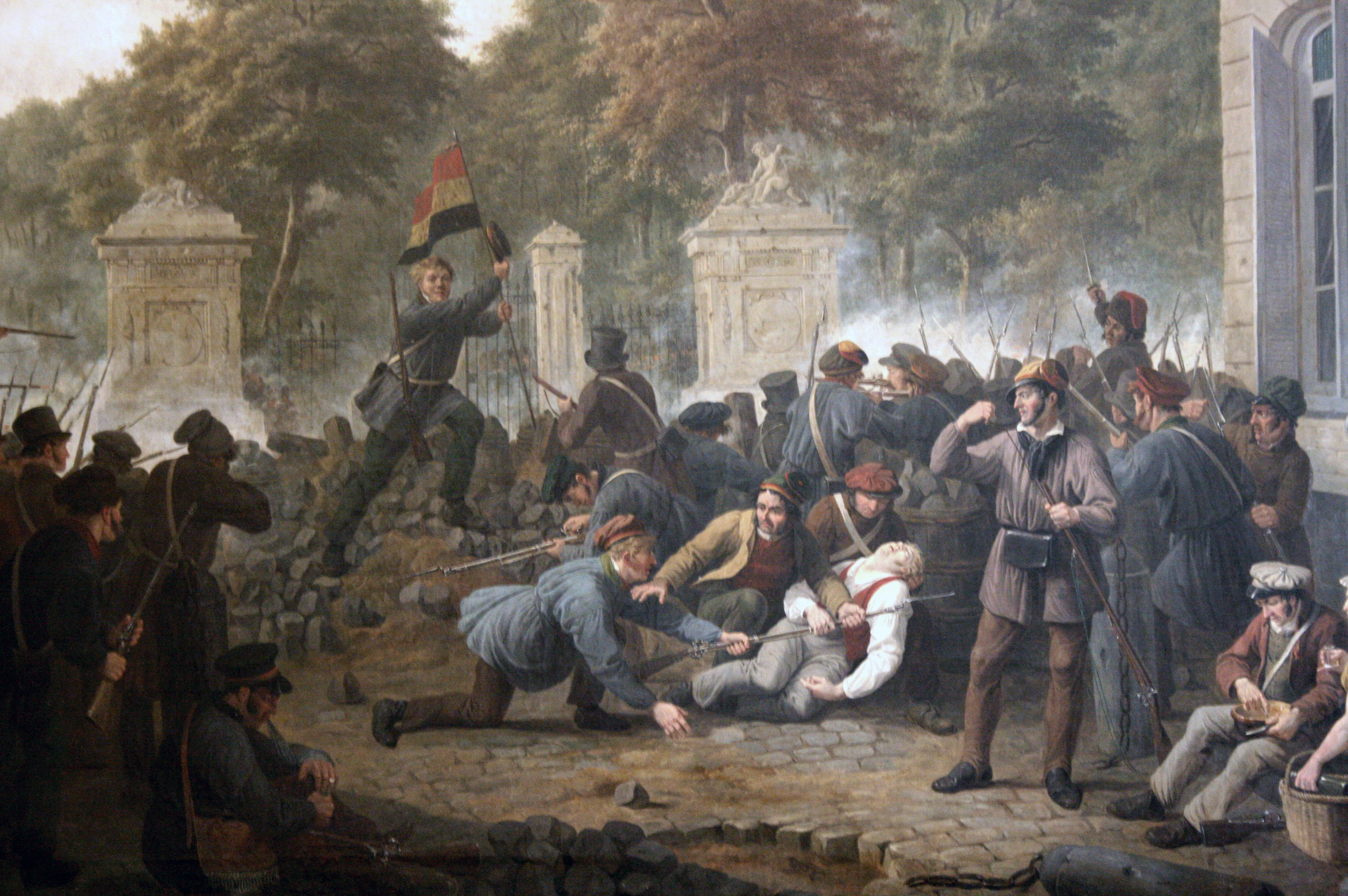 Revolutionary barricade facing the Park of Brussels during the fighting between Belgian rebels and Dutch forces in 1830